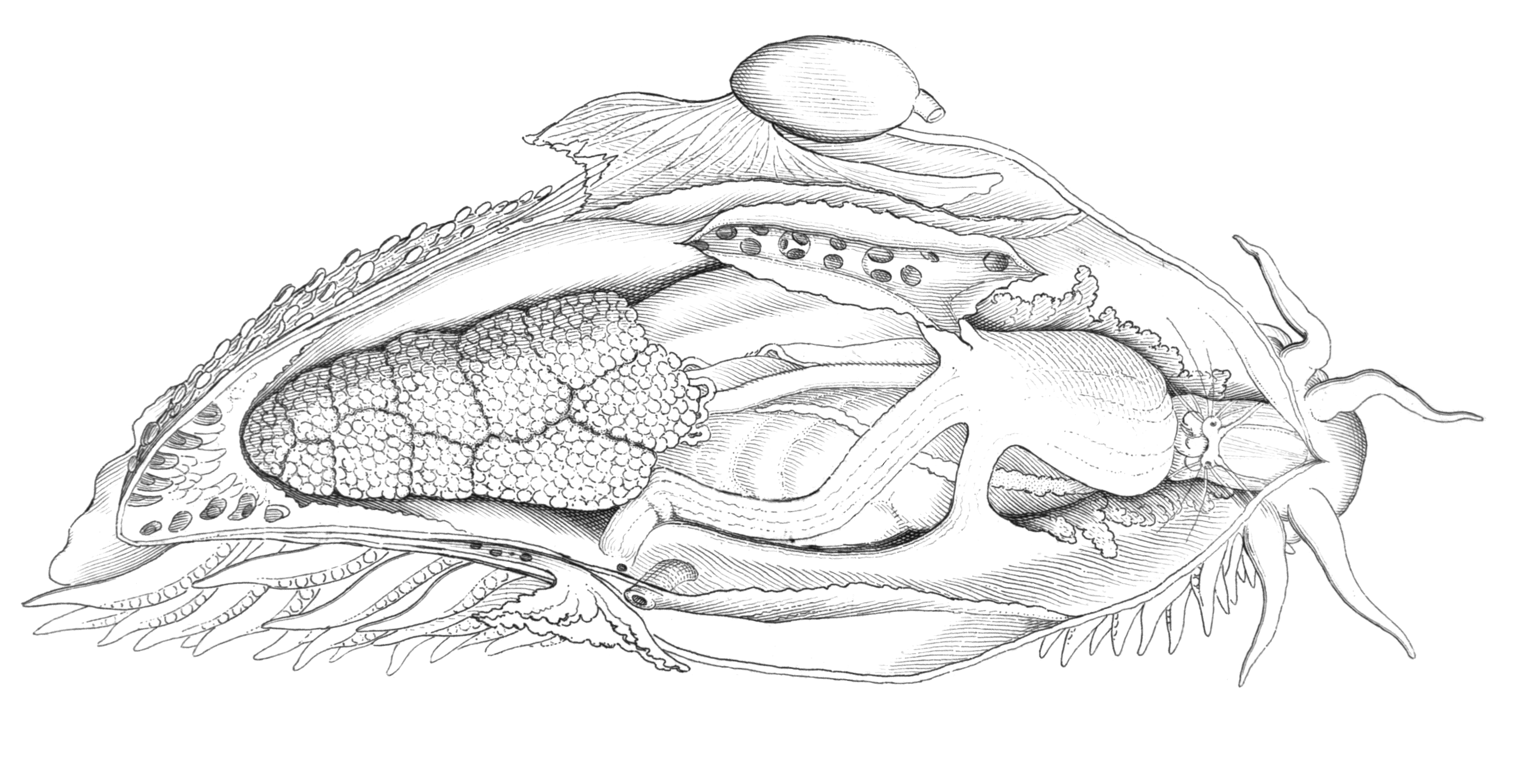 Drawing of dorsal view of the dissection of Fiona pinnata. See annotations directly on the image.